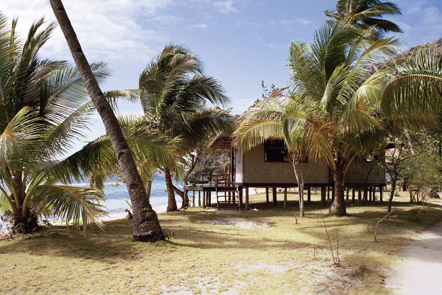 Philippine island of Sangat.